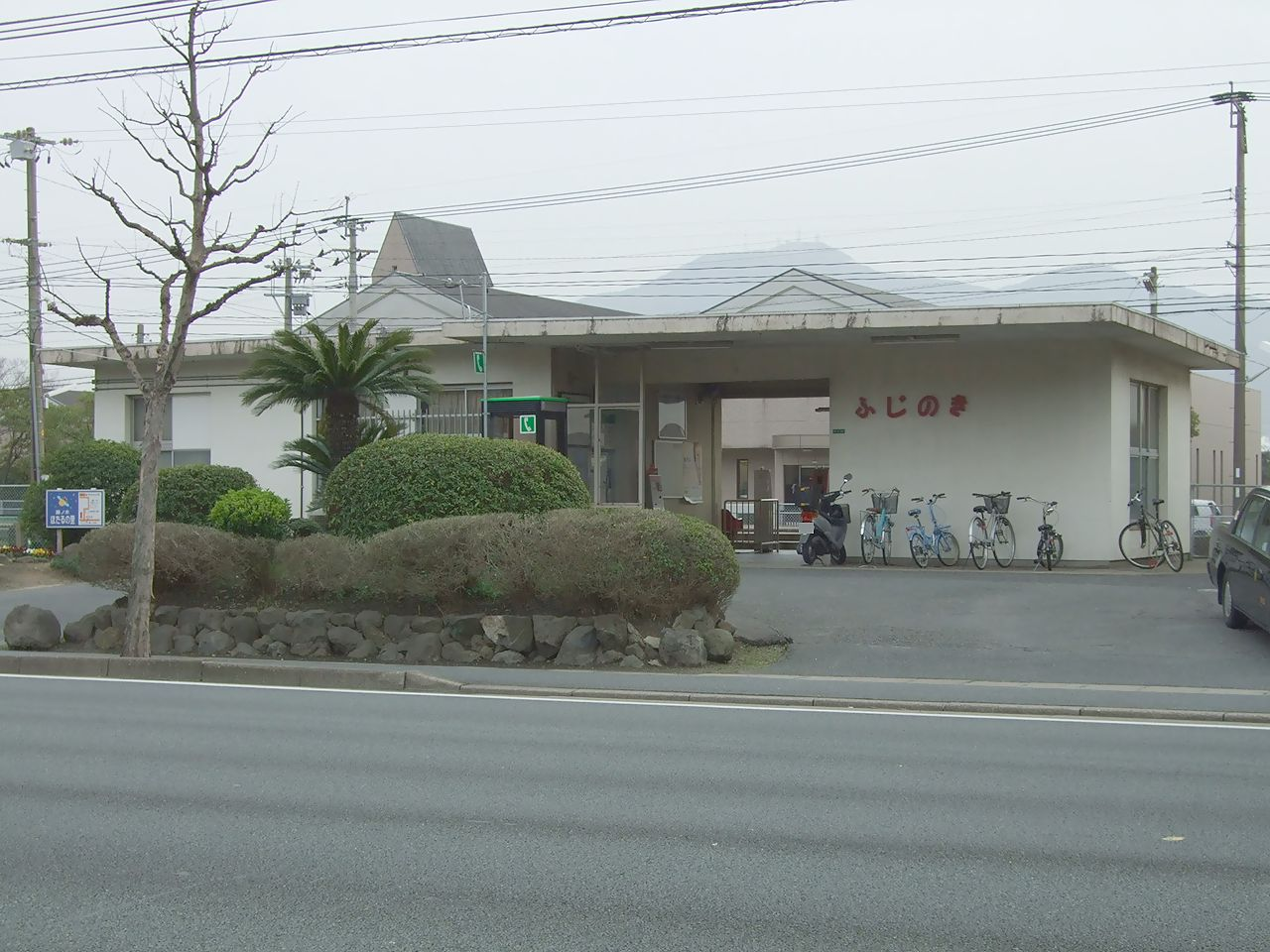 Fujinoki Station, Chikuho Main Line, Kyushu Railway Company.